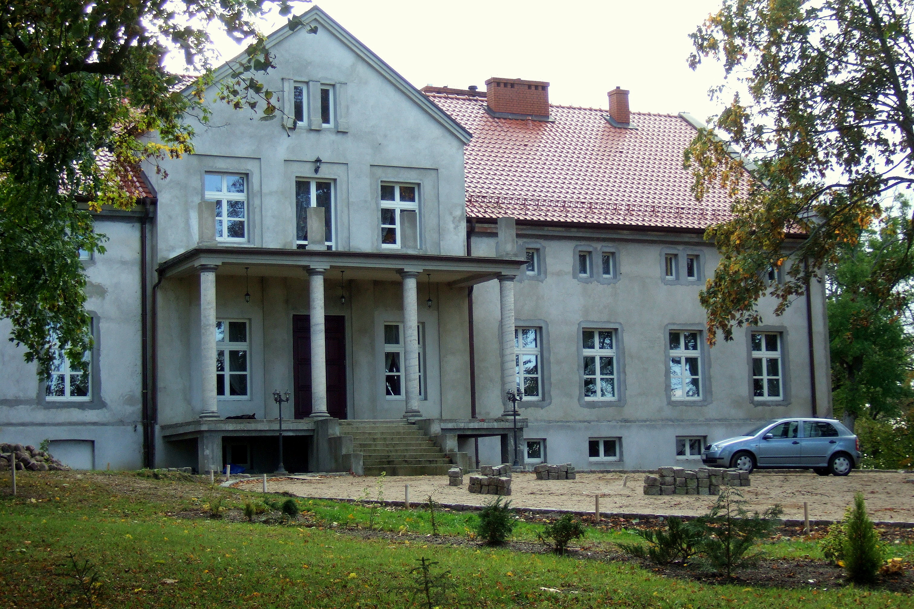 German-era manor house from XIX century in Sędławki (German: Sandlack), village in Warmian-Masurian Voivodeship in Poland,front, main entrance. Skoda Octavia parked.